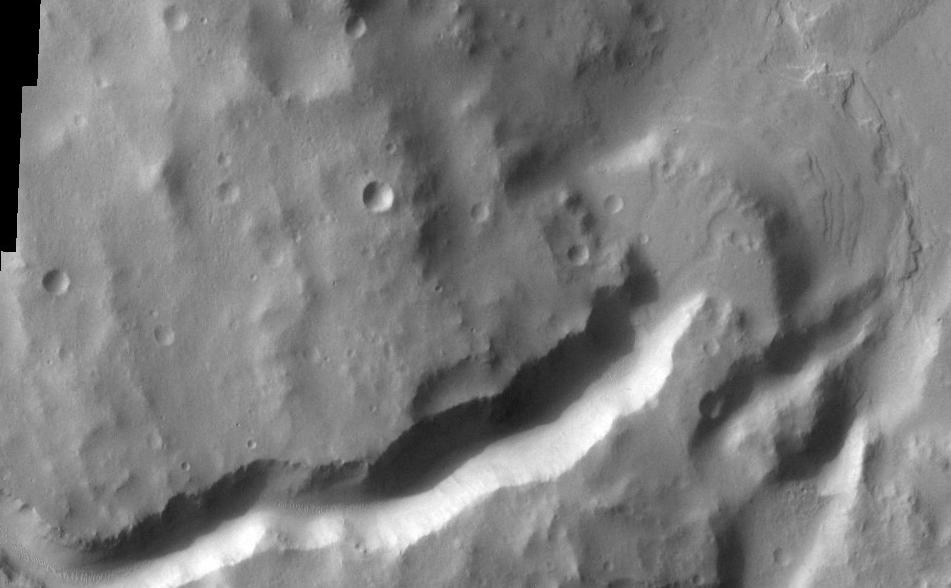 Delta in Lunae Pallus, as seen by themis. Location is 12 N and 52.7 W